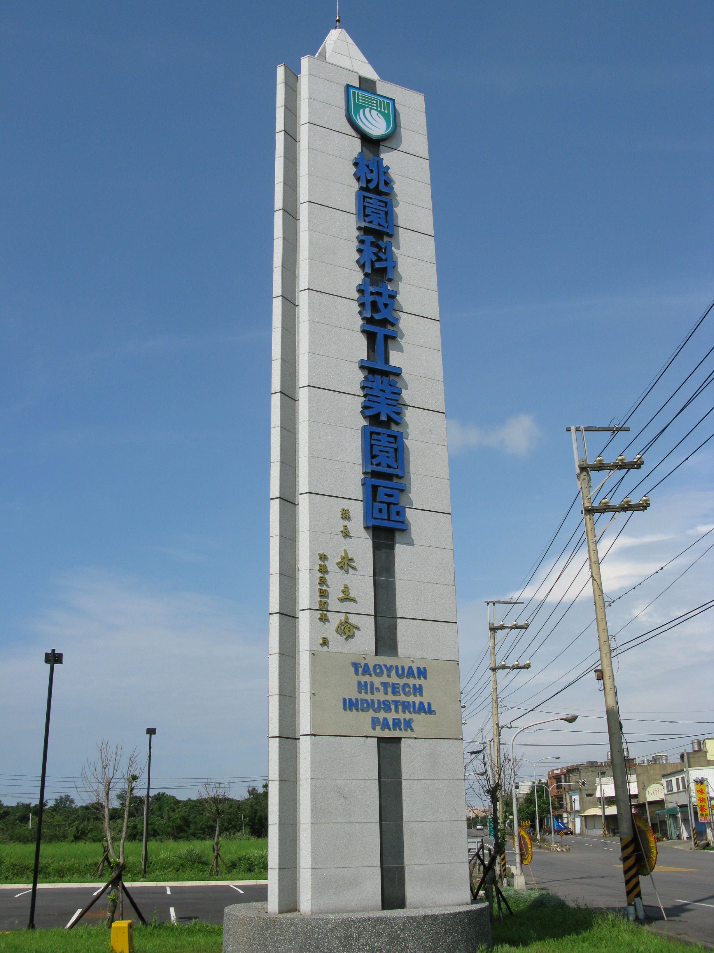 TAOYUAN HI-TECH INDUSTRIAL PARK, TAIWAN